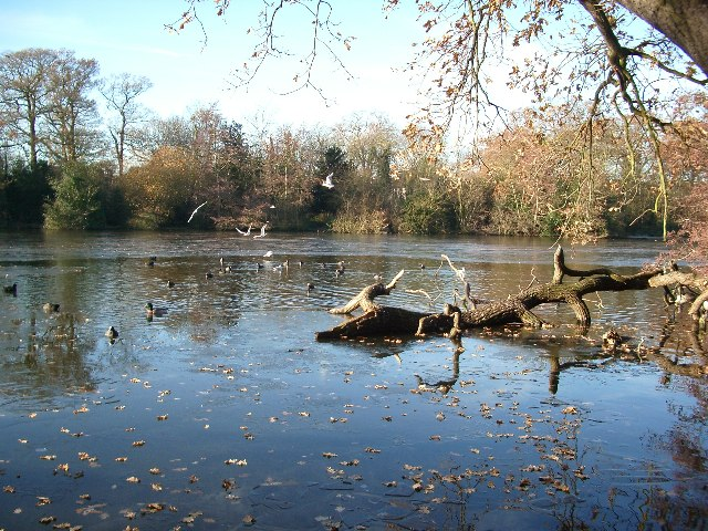 Frosty lake, Epping Forest. Highams Park lake on a frosty morning. The River Ching flows through the lake on its short journey from Connaught Water to the Lea River and Valley